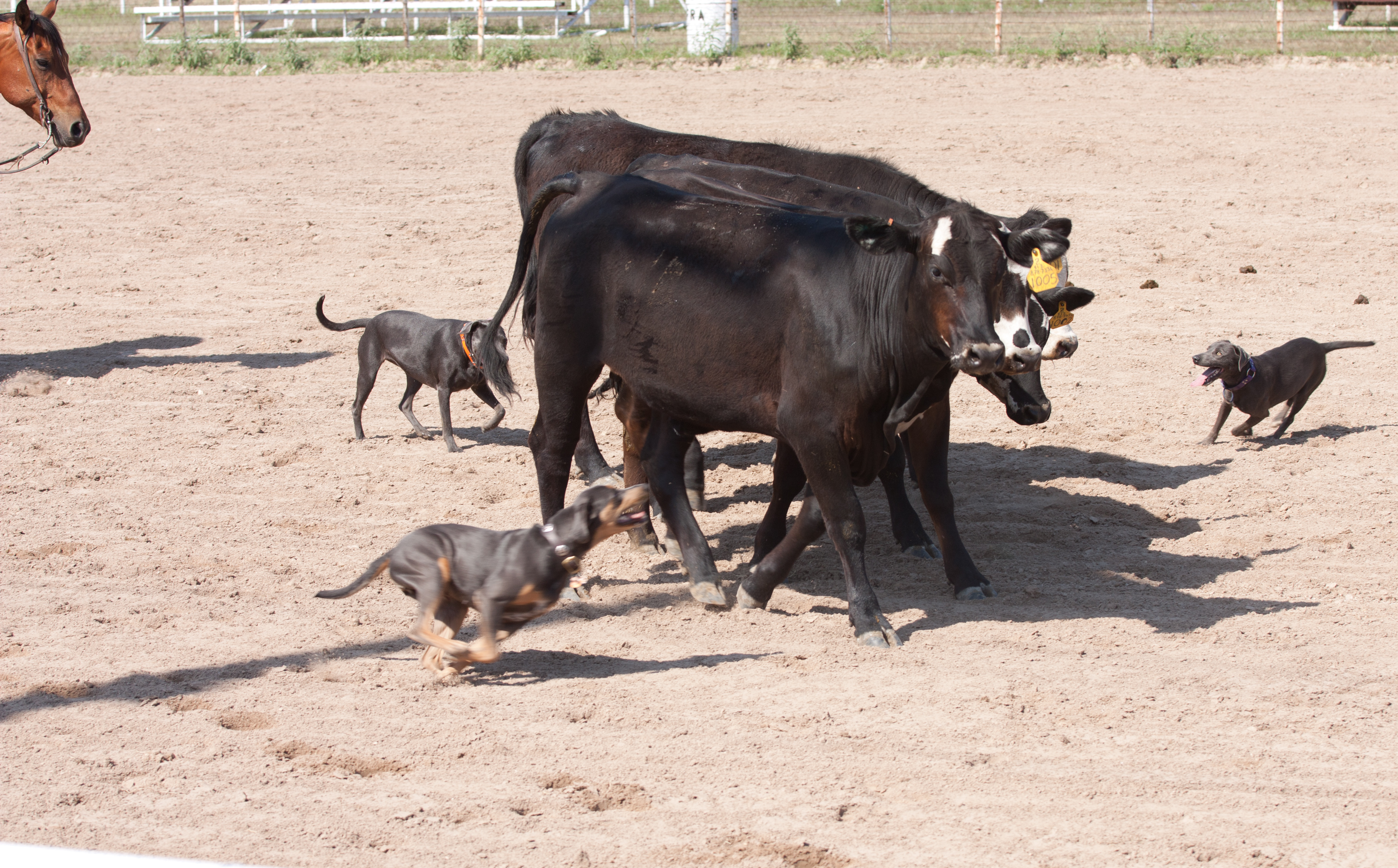 Blue Lacy Working dogs practicing their herding at the 2011 Burnet Play Day for TLGDA.